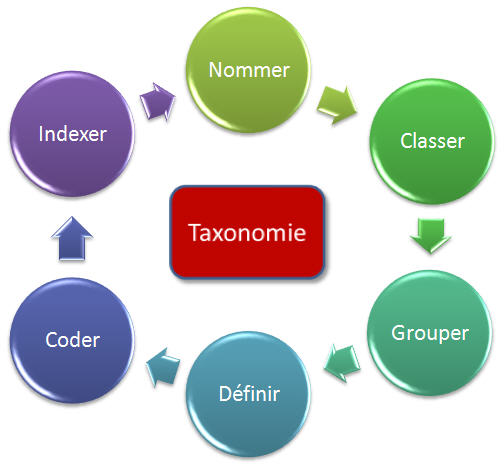 The process of Taxonomy